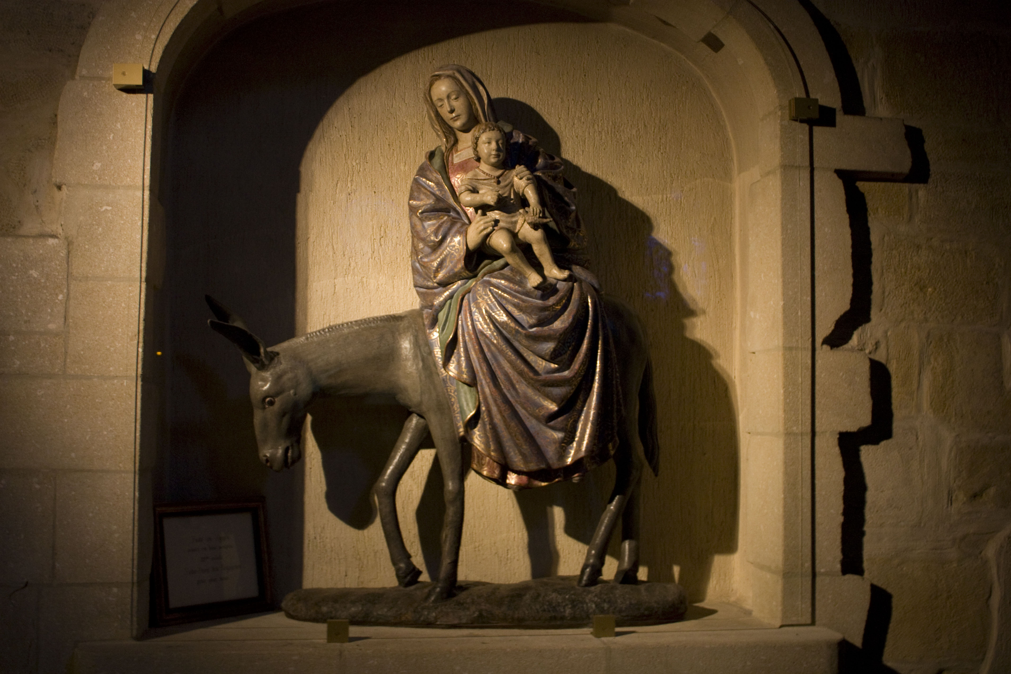 Sculpted group of the Flight into Egypt. Church of Saint-Esprit (Bayonne, France).